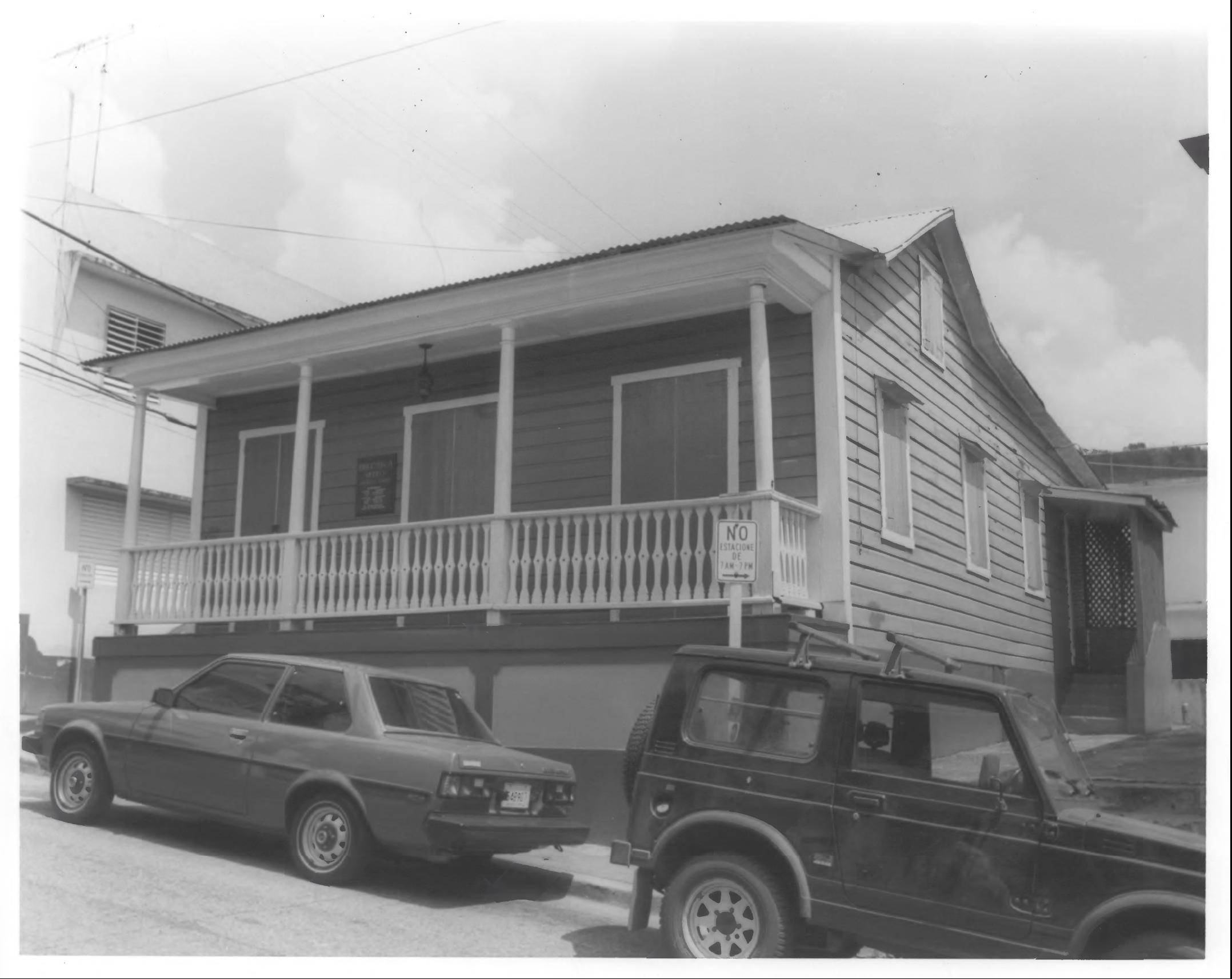 Casa Natal de Luis Munoz Rivera. Munez Rivera and Manuel Torres Sts. Barranquitas